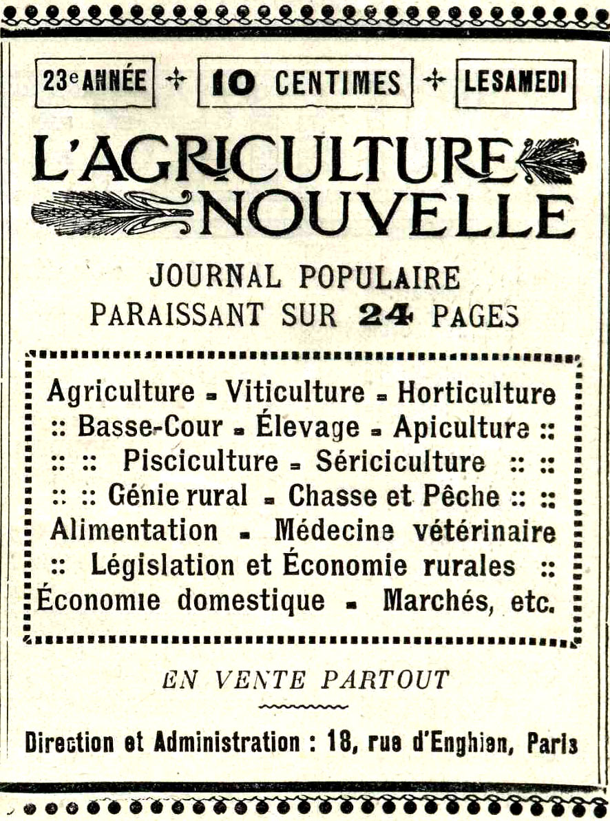 1914 advertisement for "L'Agriculture nouvelle" in Le Miroir